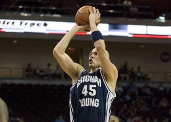 Tavernari vs. Louisville, November 2007